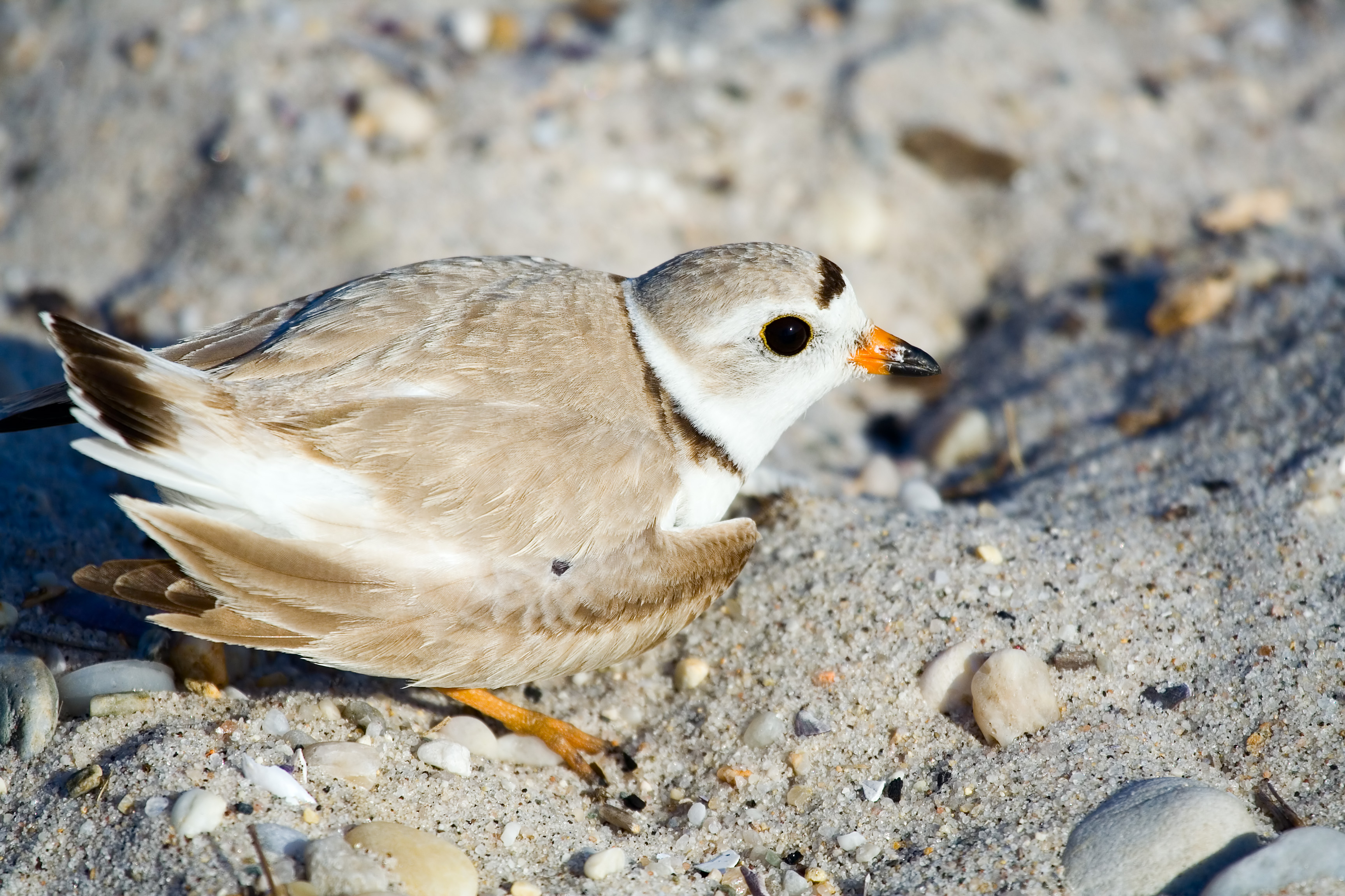 Piping Plover on Long Island, New York